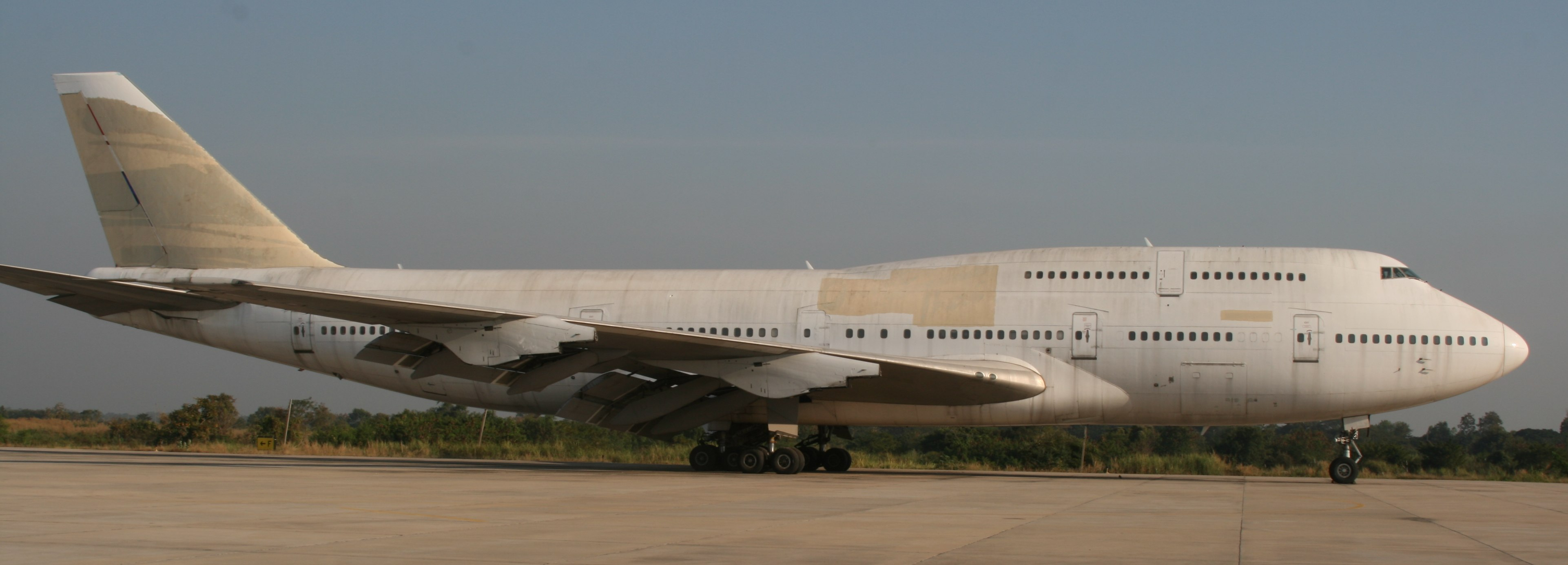 Decomissioned Boeing 747 by Orient Thai, parked at Phitsanulok Airport